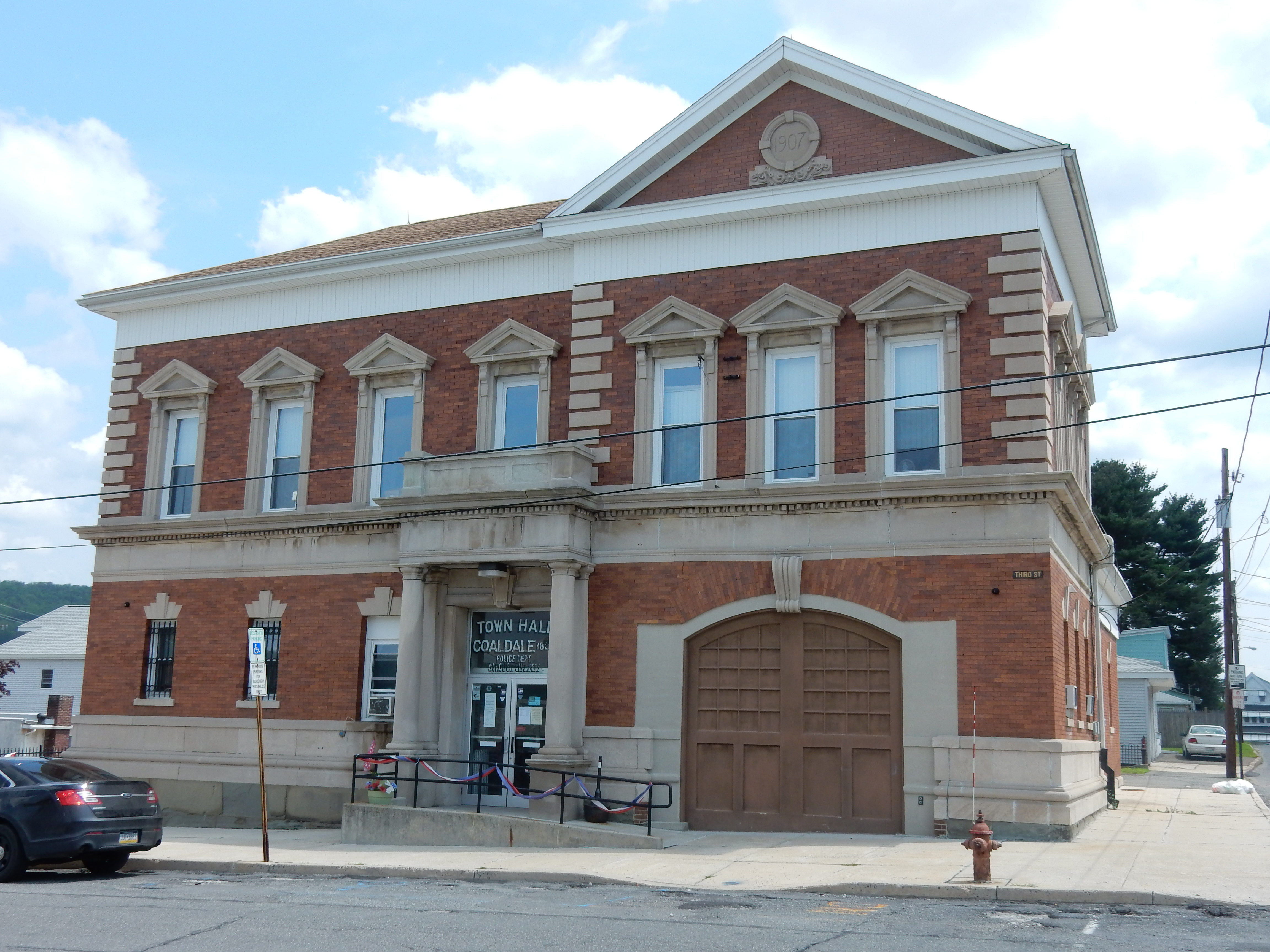 Town Hall, 3rd St., Coaldale, Schuylkill County, Pennsylvania.